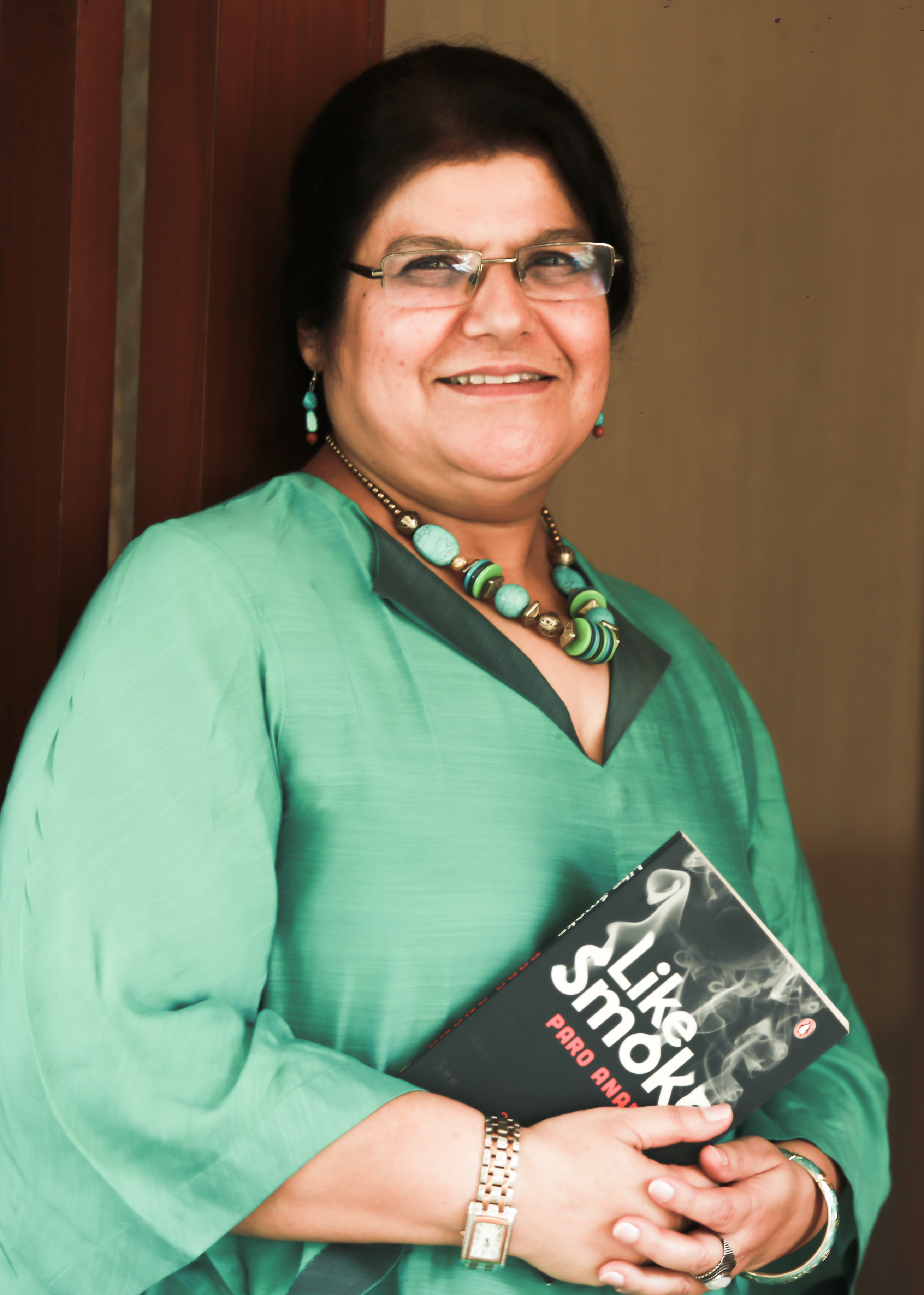 Paro Anand at a promotional event for her book, Like Smoke, in New Delhi